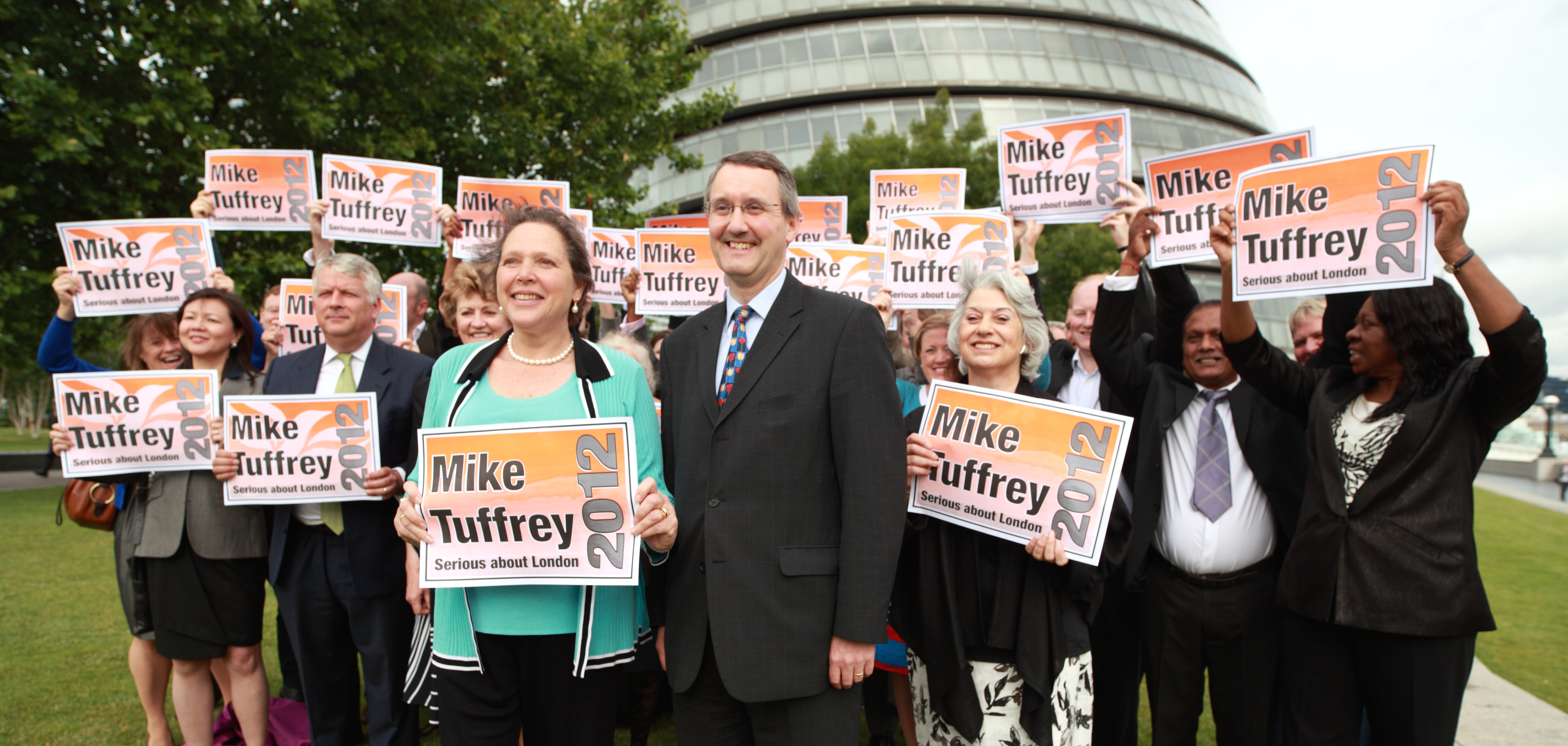 Mike Tuffrey launches Mayoral Campaign 2012 with Susan Kramer and a strong team of London Liberal Democrats supporters including, Dee Doocey, Merlene Emerson, Bridget Fox etc. with the strapline "Serious about London".